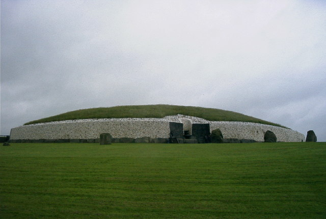 Newgrange. Stunning! What more can one say?